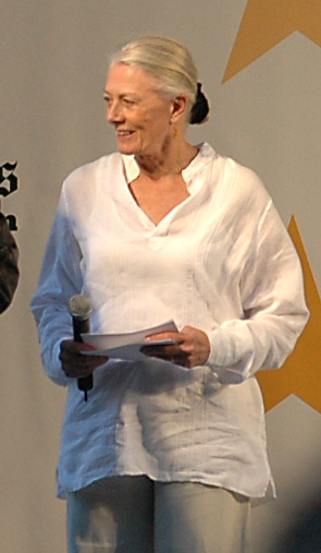 Legendary actress Vanessa Redgrave at the "Stars In The Alley" concert in Shubert Alley in New York City on June 6, 2007